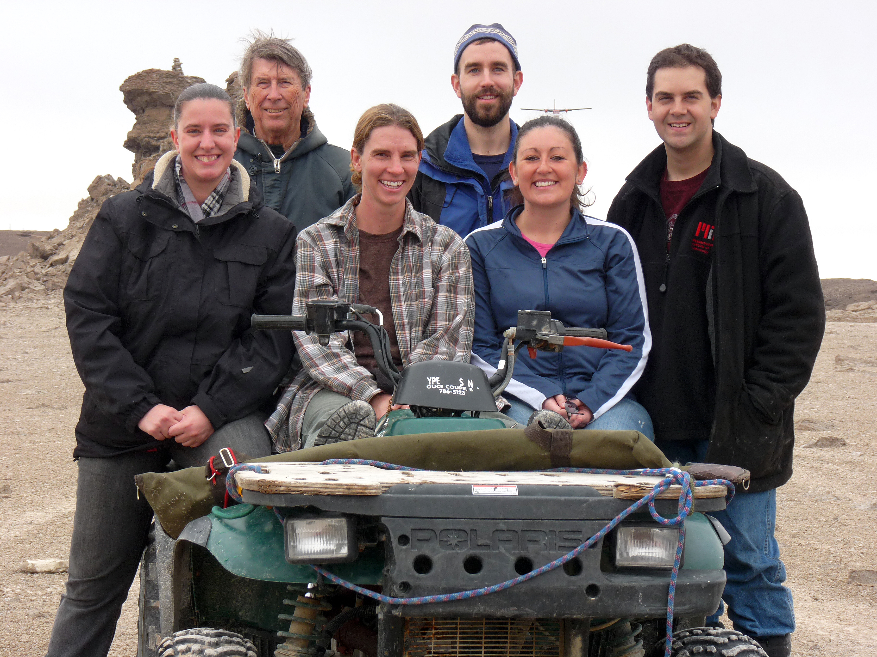 FMARS-12 crew at the landing strip on Devon Island